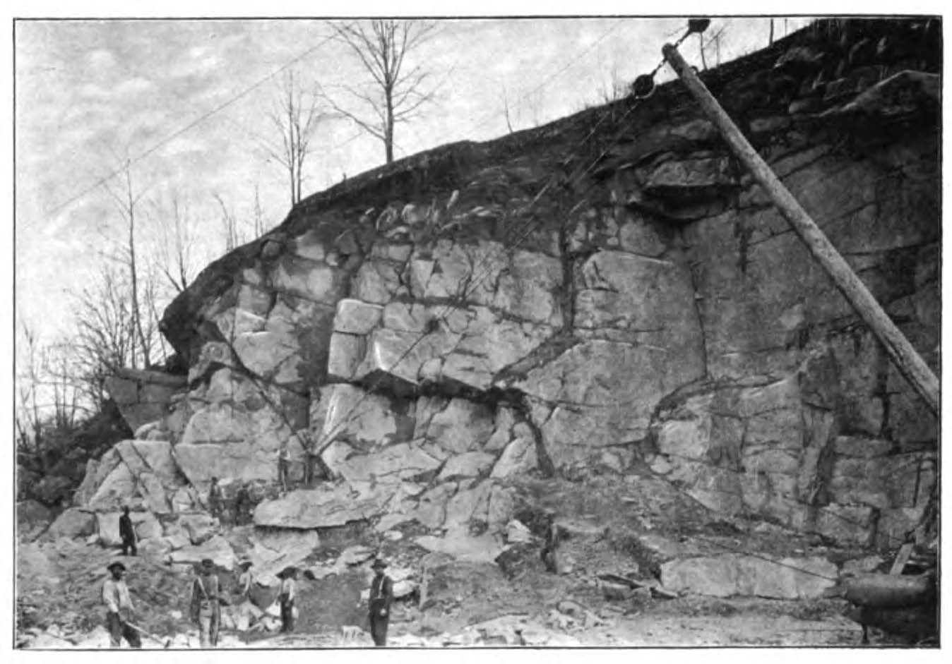 Plate XII, Figure 2, of 1898 publication called Maryland Geological Survey Volume Two, with caption "WEBER'S QUARRY, ELLICOTT CITY."